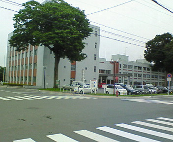 Towada City Office Aomori japan